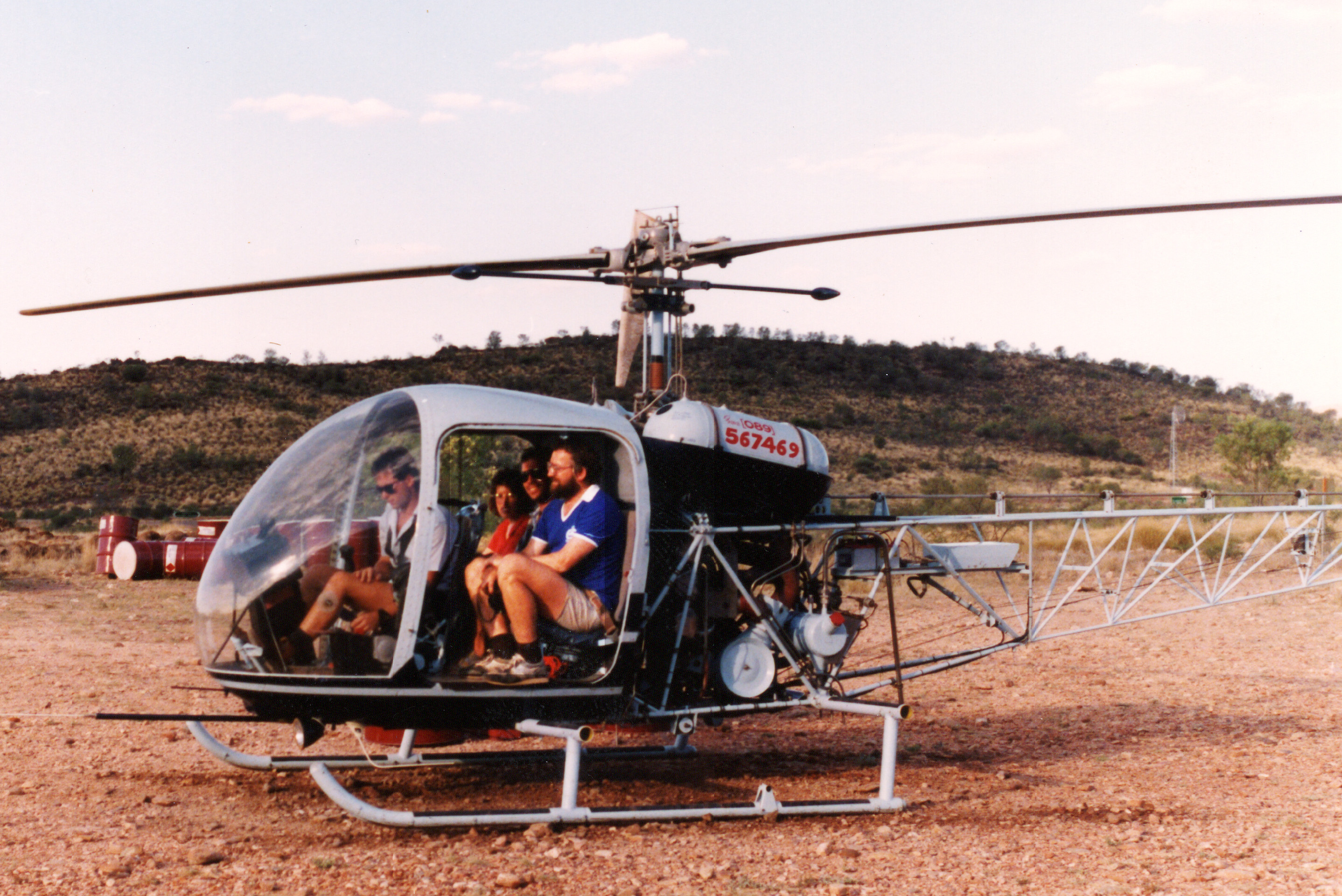 Kawasaki Heavy Industries 47G3B-KH4 (KH-4) CN 2188, built 1971. This closer image gives more detail of the engine and cockpit.